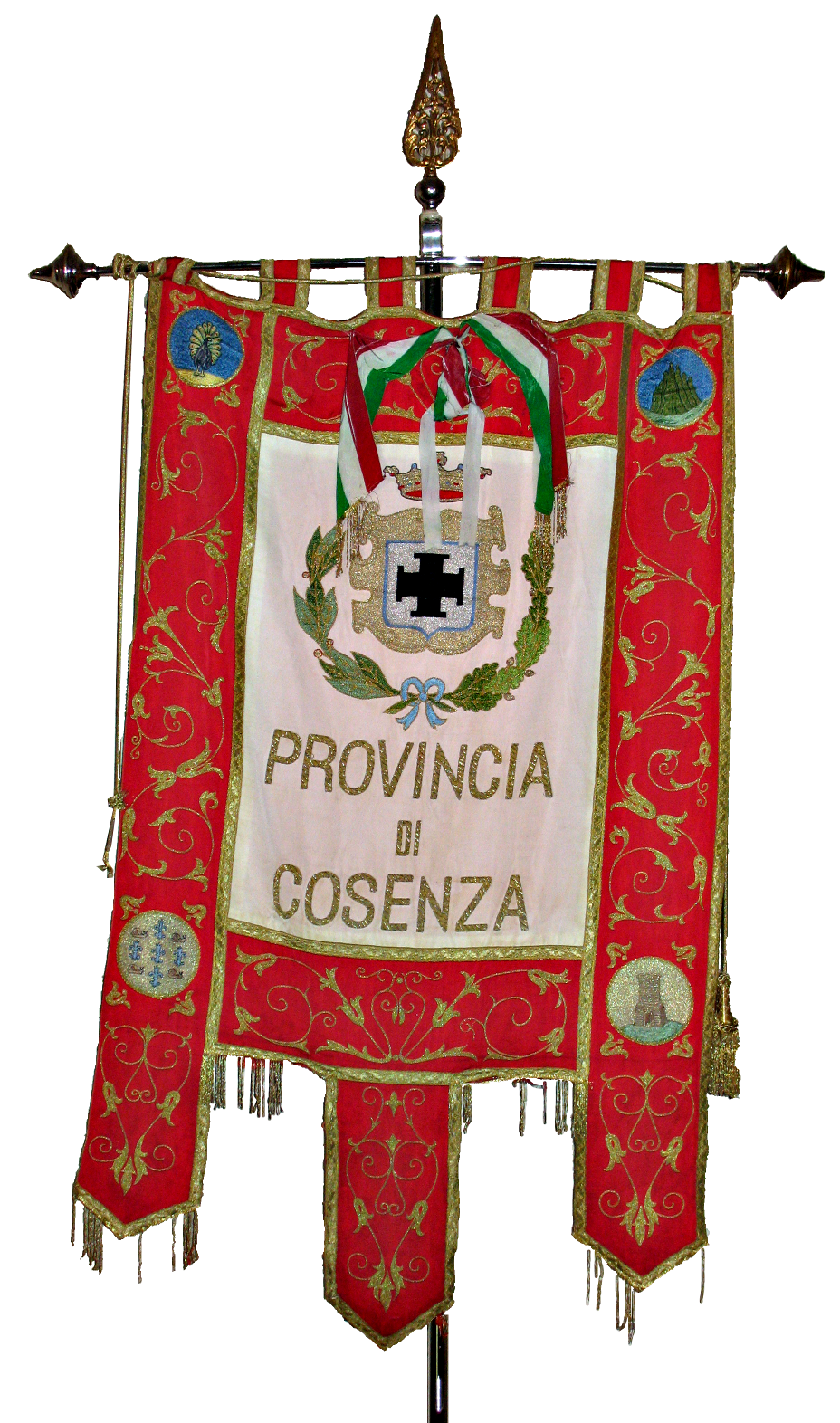 Coat of Arms of Cosenza